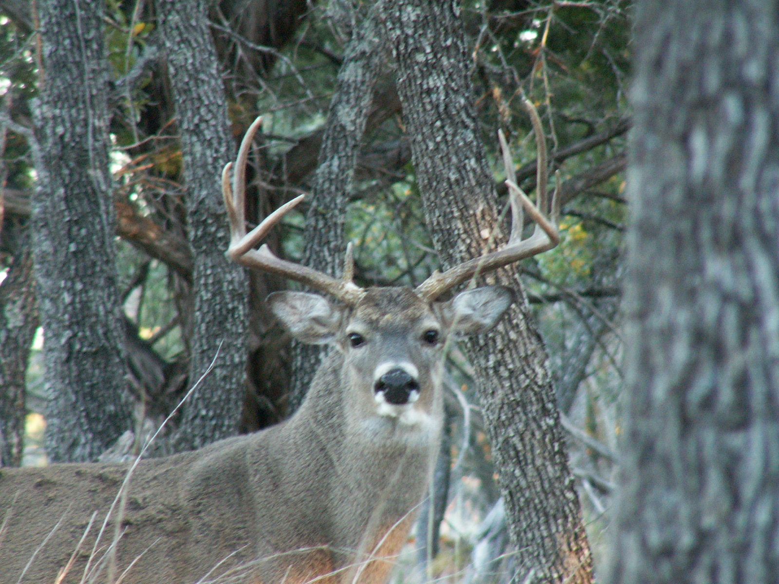 Friend of co-worker took these pictures at their deer lease in Brady, Tx. Although it was hunting season, only used the camera on this guy.